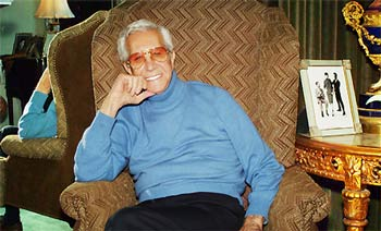 I had the honor to photograph Mr. Blackwell at his house in Hancock Park in 2008.